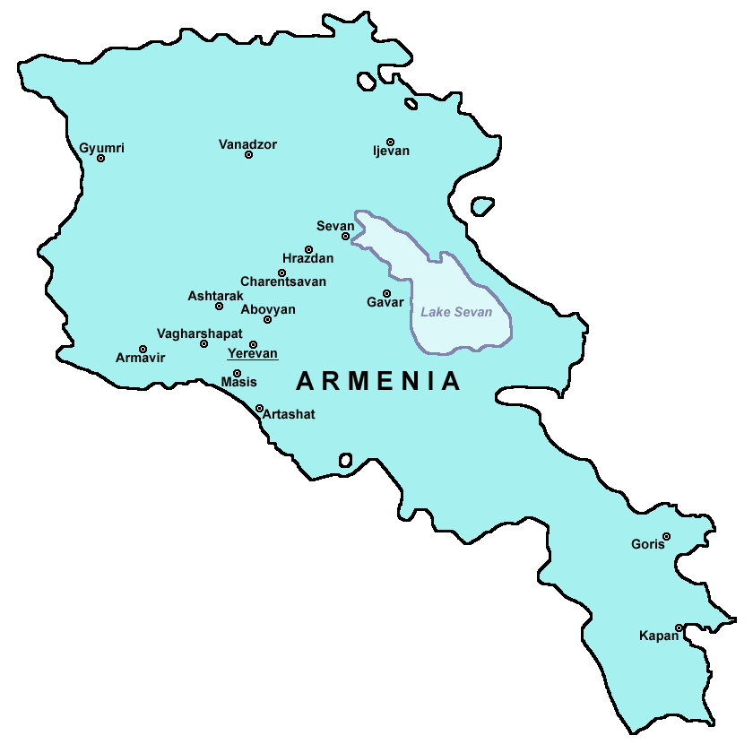 Map showing the largest cities and towns in Armenia.